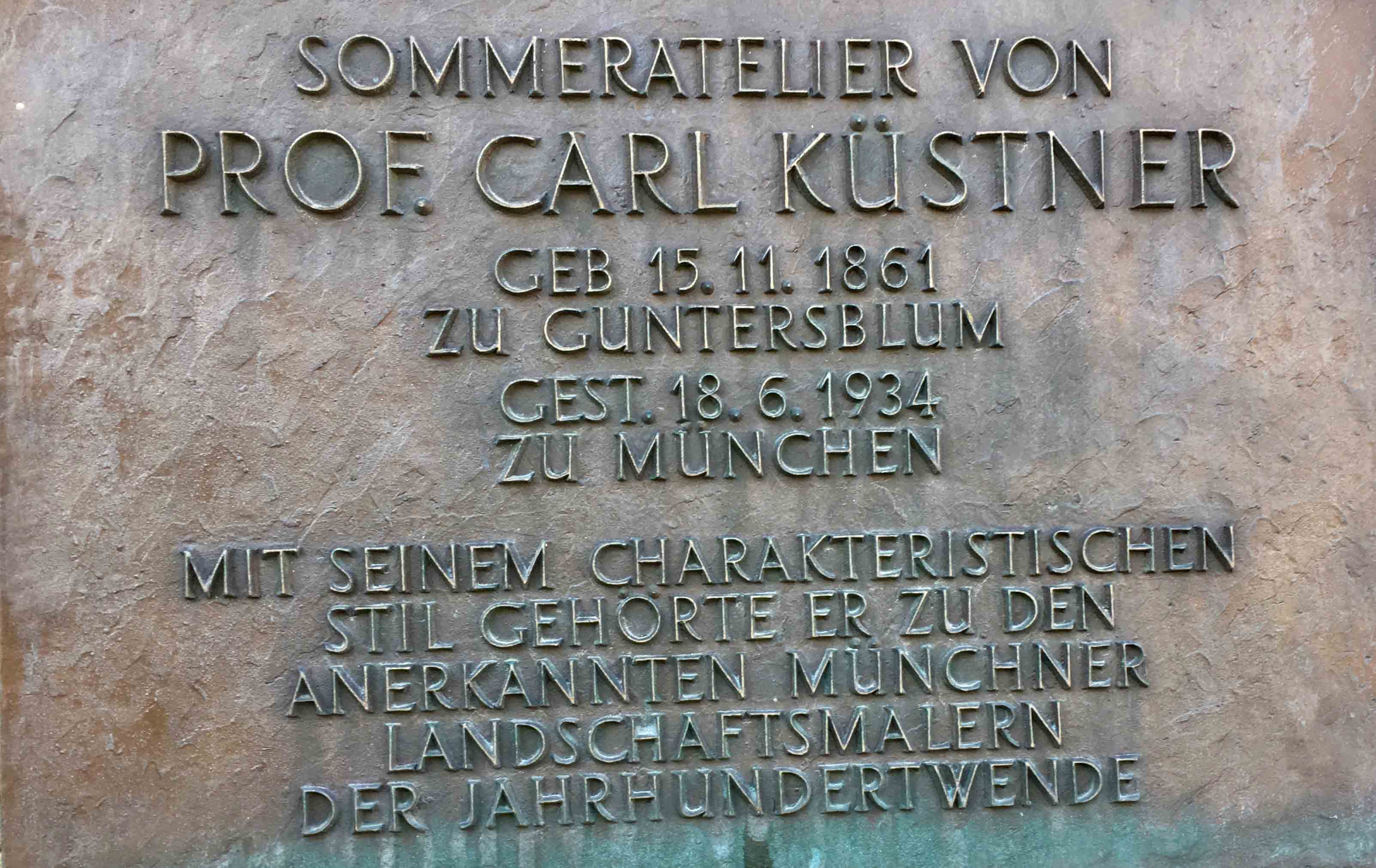 Commemorative plaque at the summerstudio in Guntersblum